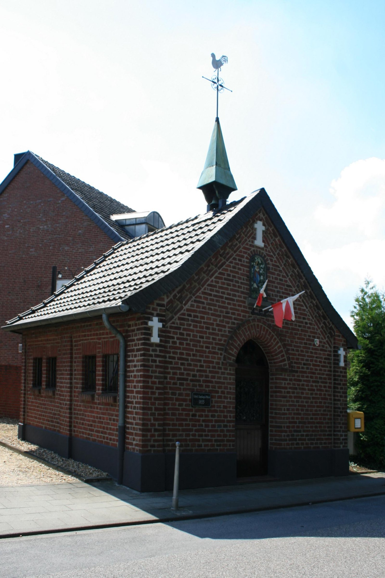 Cultural heritage monument No. G 019 in Mönchengladbach